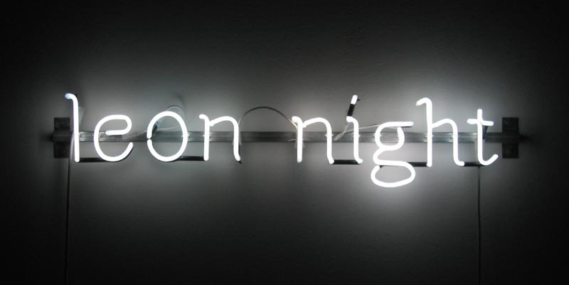 misspelled neon light.